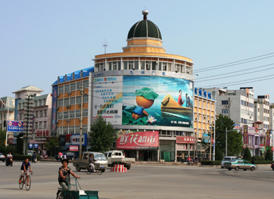 Downtown, Zhuanghe City of Dalian City, Liaoning, Chine